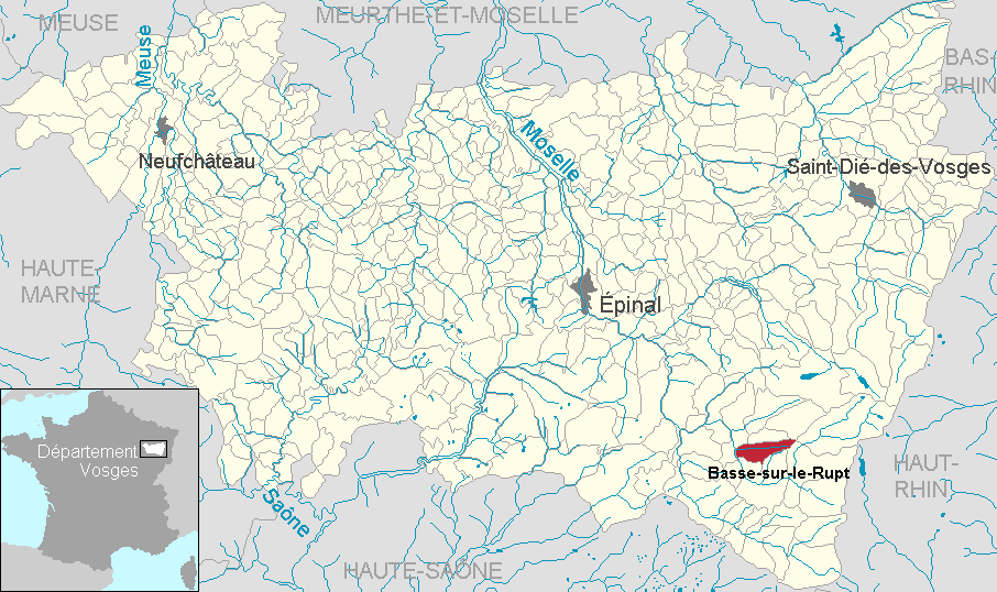 Basse-sur-le-Rupt in the department of Vosges, Lorraine, France